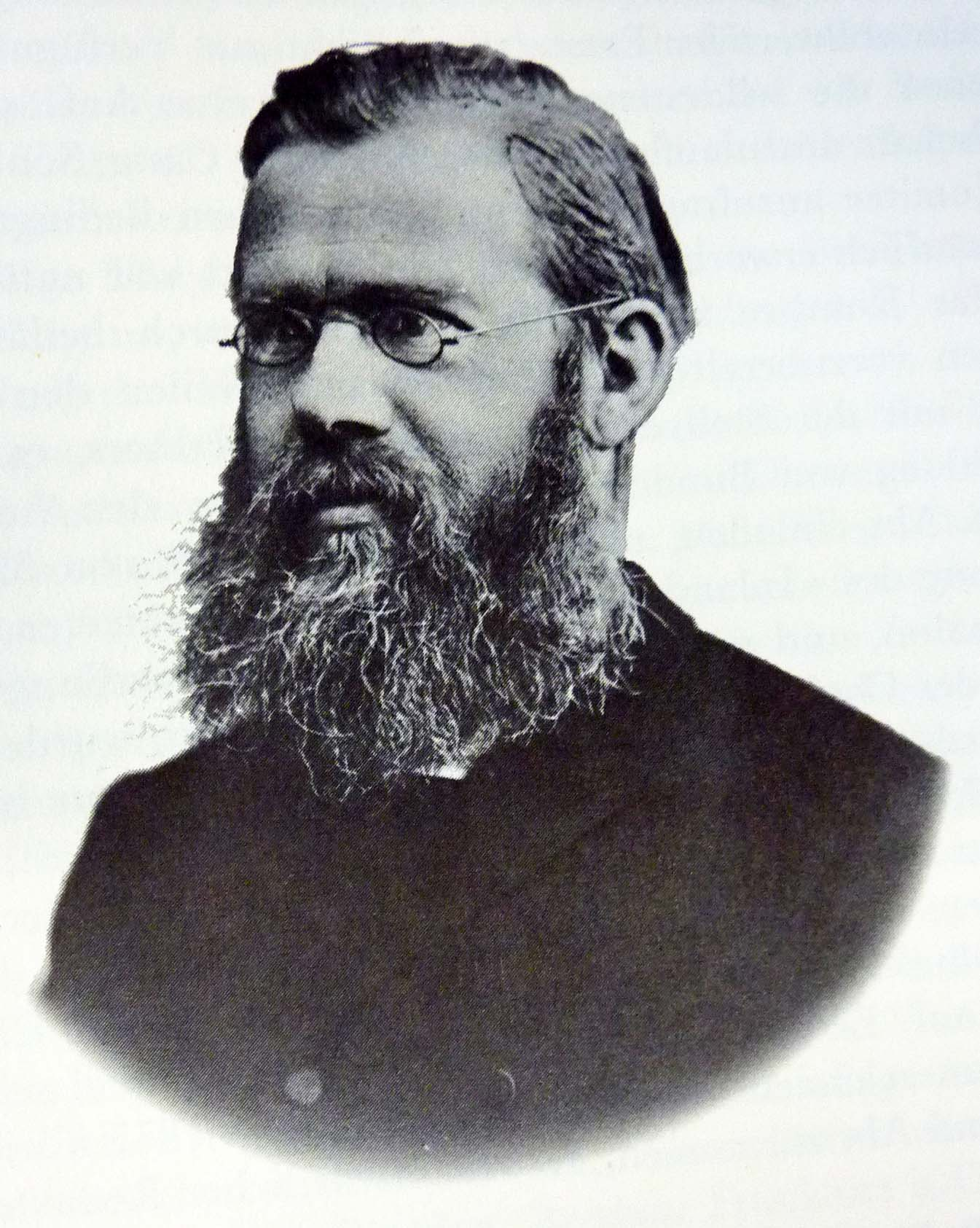 Portrait of the Swiss editor Gottwalt Niederer